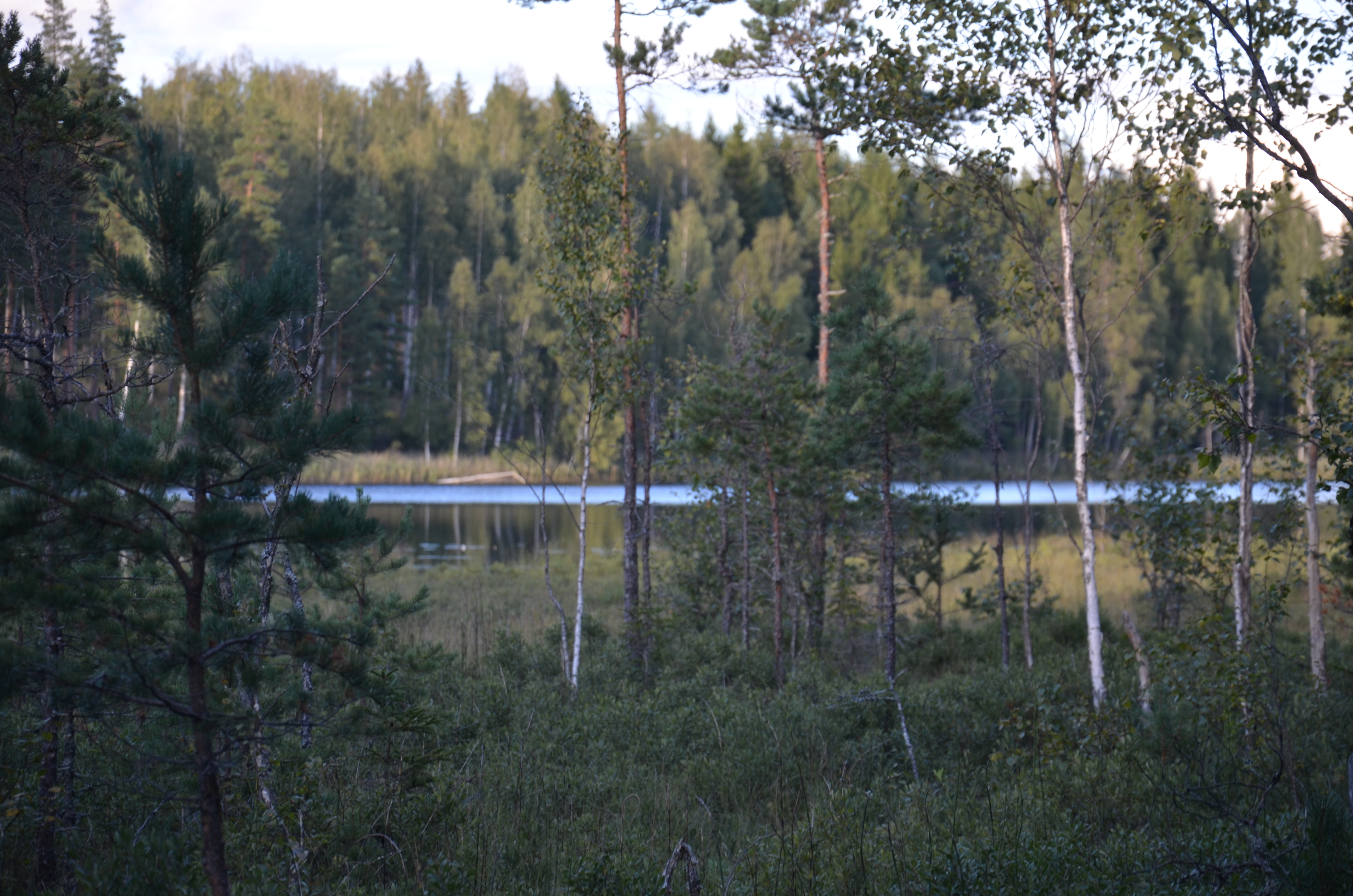 Mörttjärn, Norberg Municipality